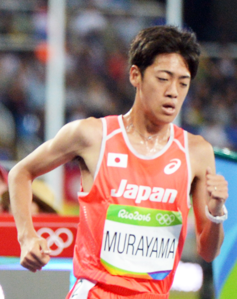 Spcs. Leonard Korir and Shadrack Kipchichir finish 14th and 19th respectively in the men's 3,000-meter run Aug. 13 at the 2016 Rio Olympic Games in Rio de Janeiro. Both Soldiers in the U.S. Army World Class Athlete Program turned in their season-best performaces, with Korir finishing in 27 minutes, 58.65 seconds and Kipchirchir clocked at 27:58.32. Mohamed Farah of Great Britain successfully defended his Olympic crown by winning the race in 27:05.17. Paul Kipnetech Tanui of Kenya took the silver in 27:05.64, and Tamirat Tola of Ethiopia claimed the bronze in 27:06.27.